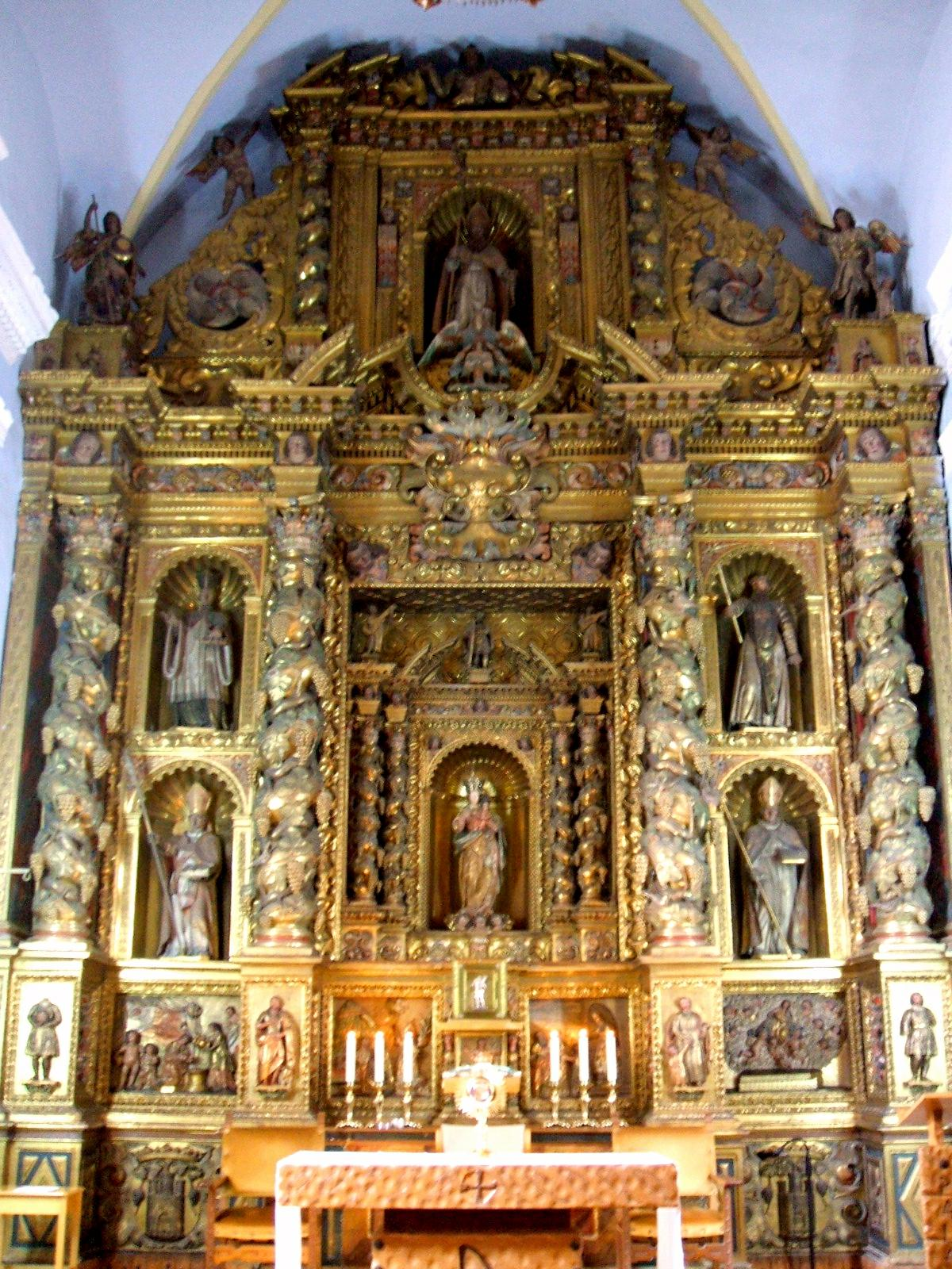 Retablo mayor barroco del Santuario de la Virgen del Río, en Tarazona (Zaragoza, Aragón, España)